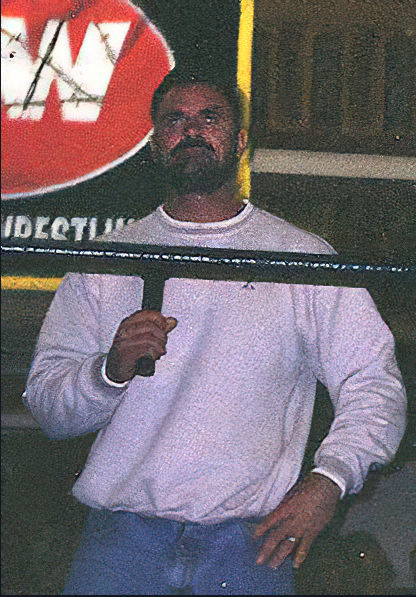 ECW TV Taping @ Elks Lodge in Queens. RIP